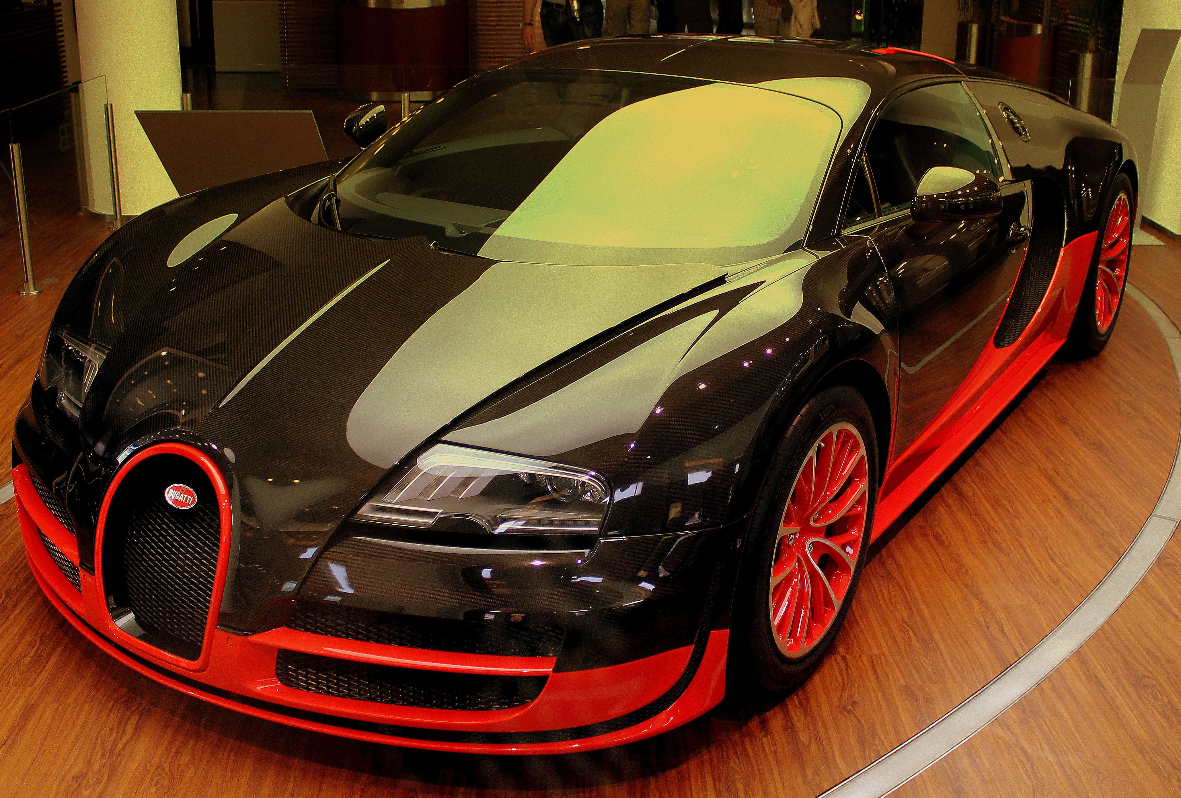 BUGATTI VEYRON SUPERSPORT 16.4 AT THE BUGATTI DEALERSHIP IN BERLIN GERMANY JUNE 2013